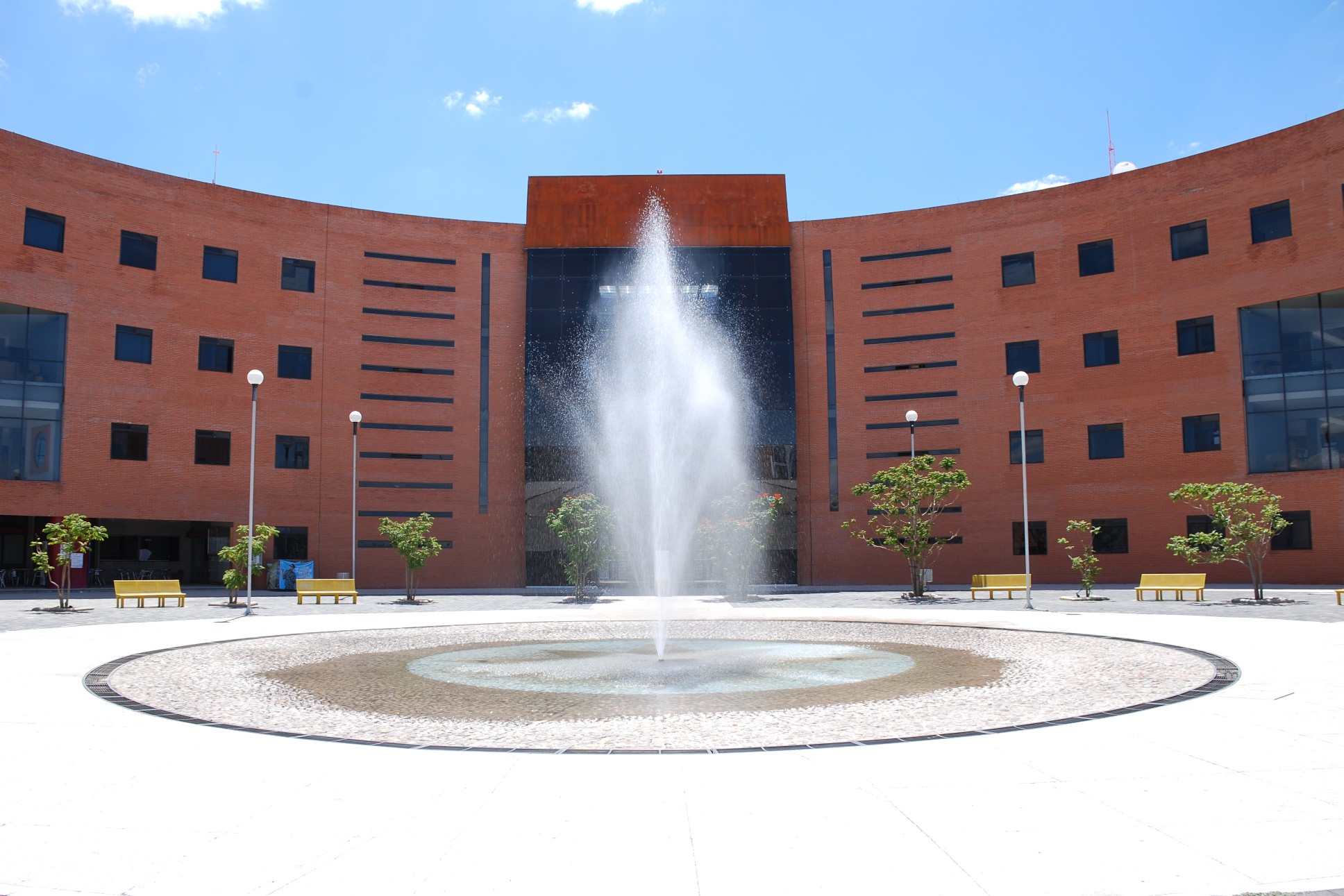 Main Building, UCEA Campus, Guanajuato University, Guanajuato, Mexico